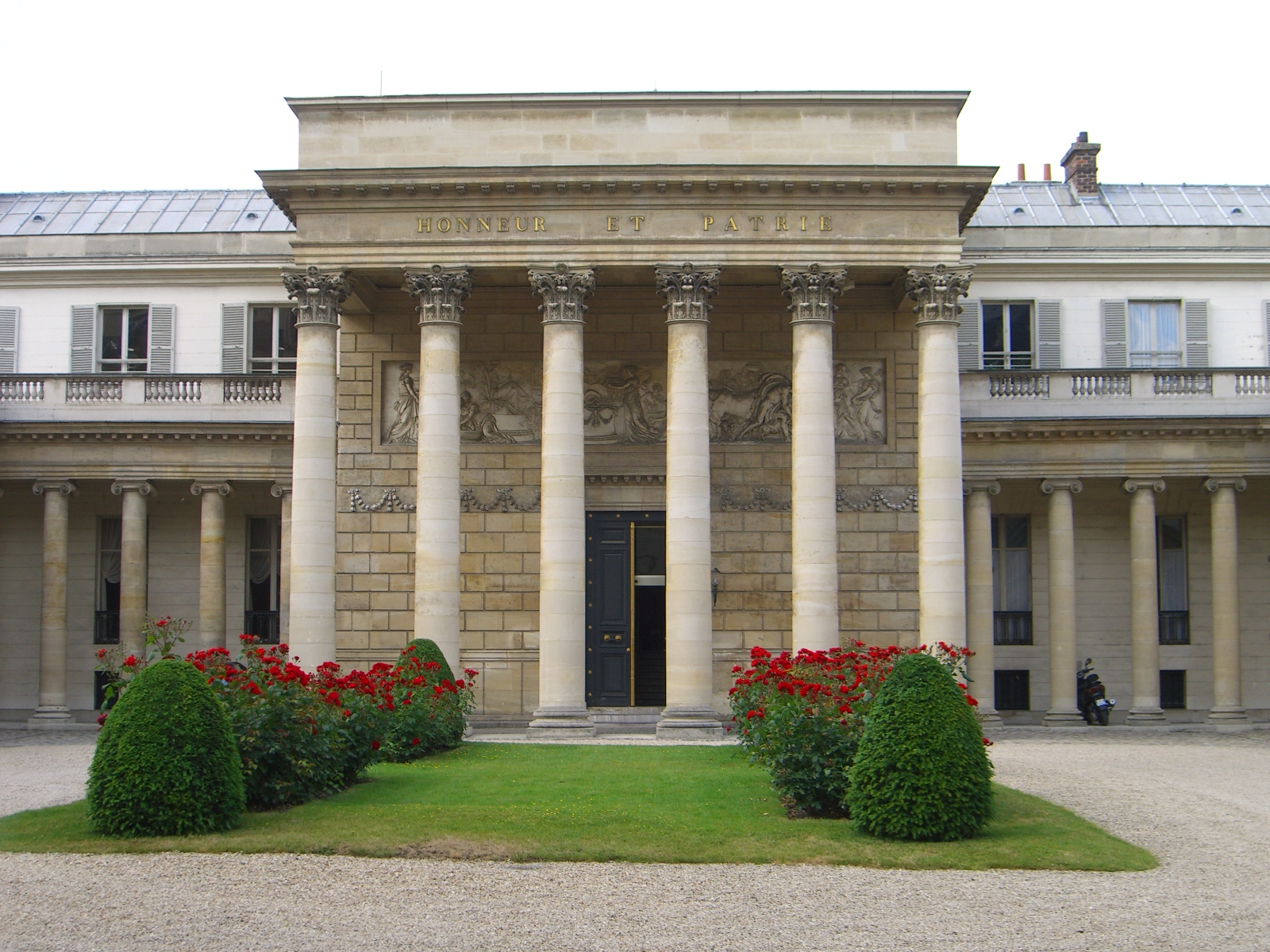 The French Legion of Honnor's head quaters